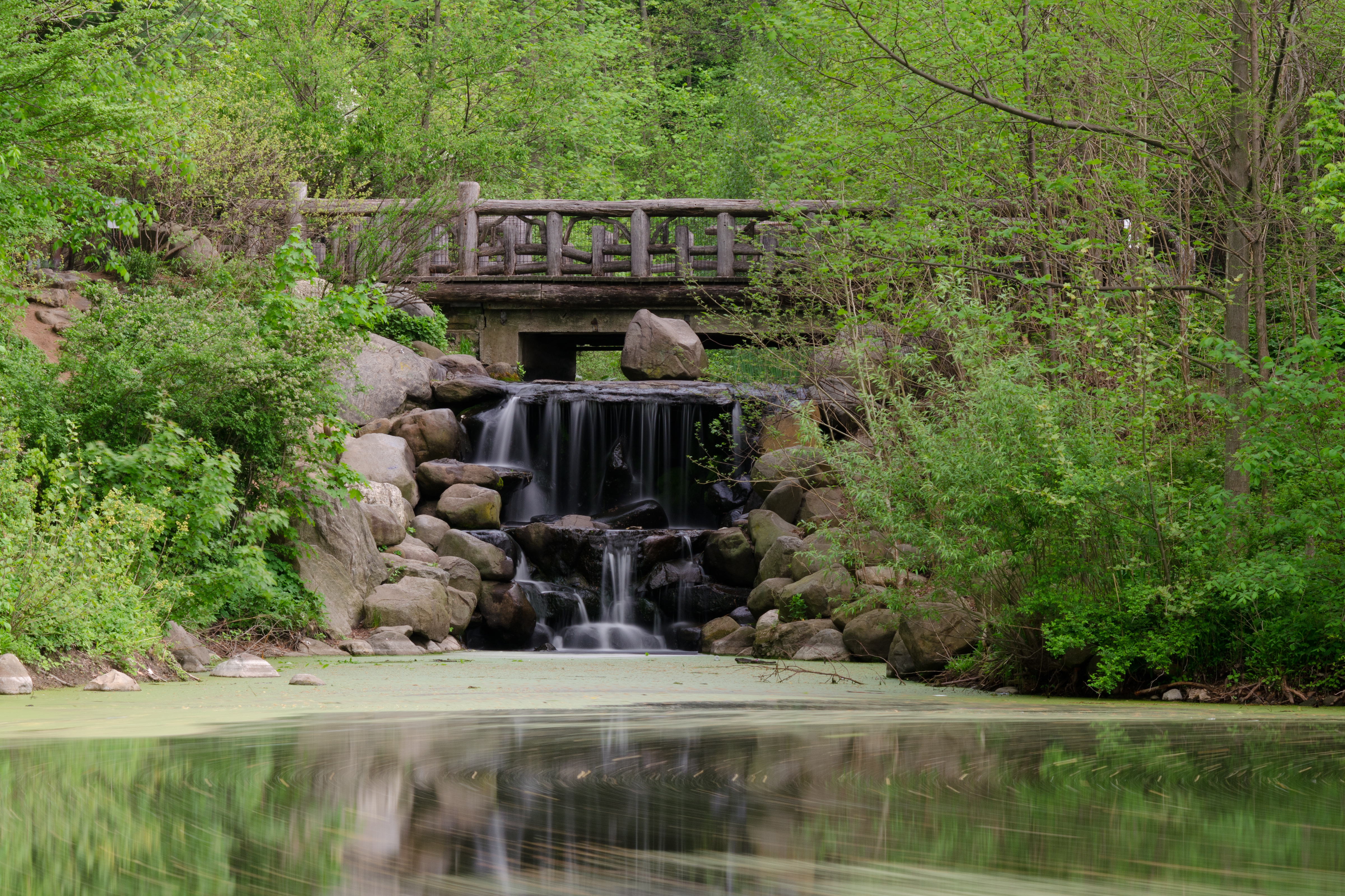 A waterfall in Prospect Park, Brooklyn, New York City.